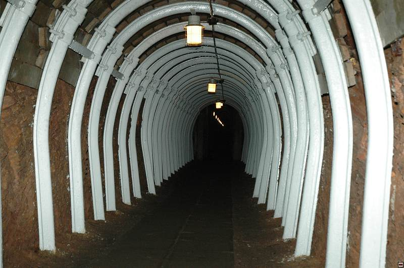 Tunnel, reinforcers was added later in fortress Dobrošov.